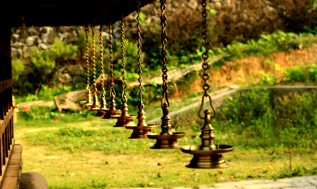 This photo was captured in a Temple in Wayanad, Kerala